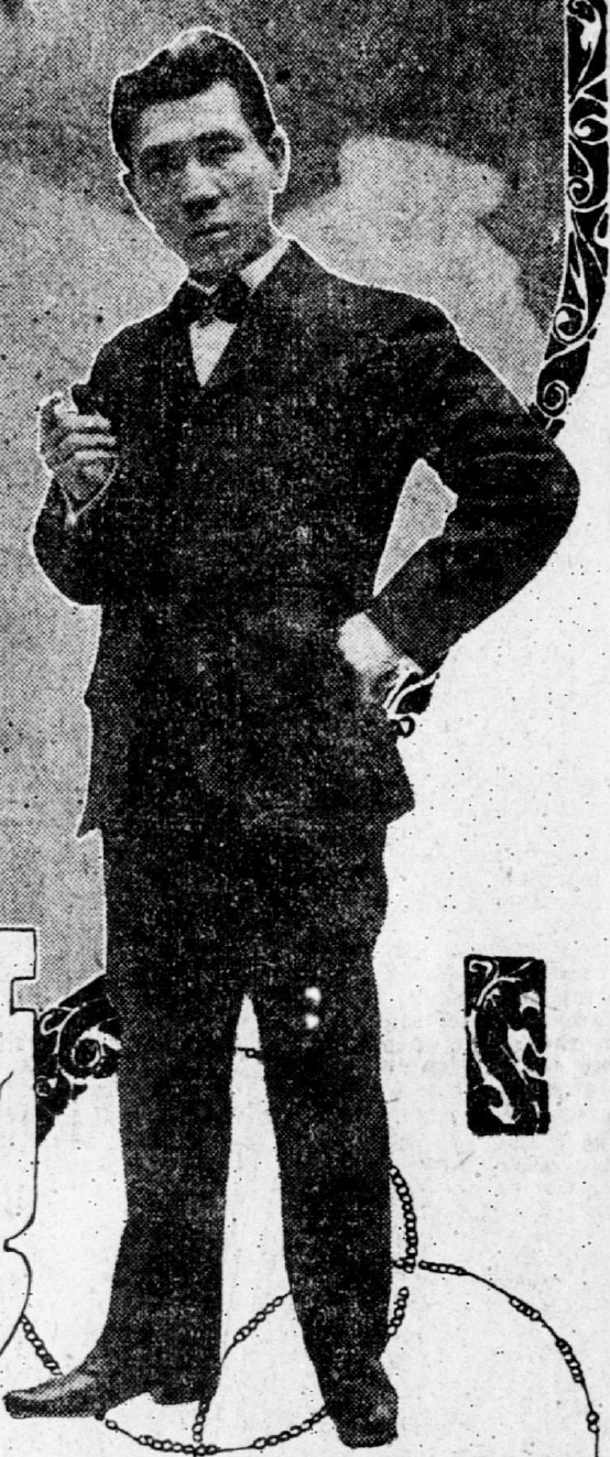 Actor Togo Yamamoto in the San Francisco Call, April 1, 1906